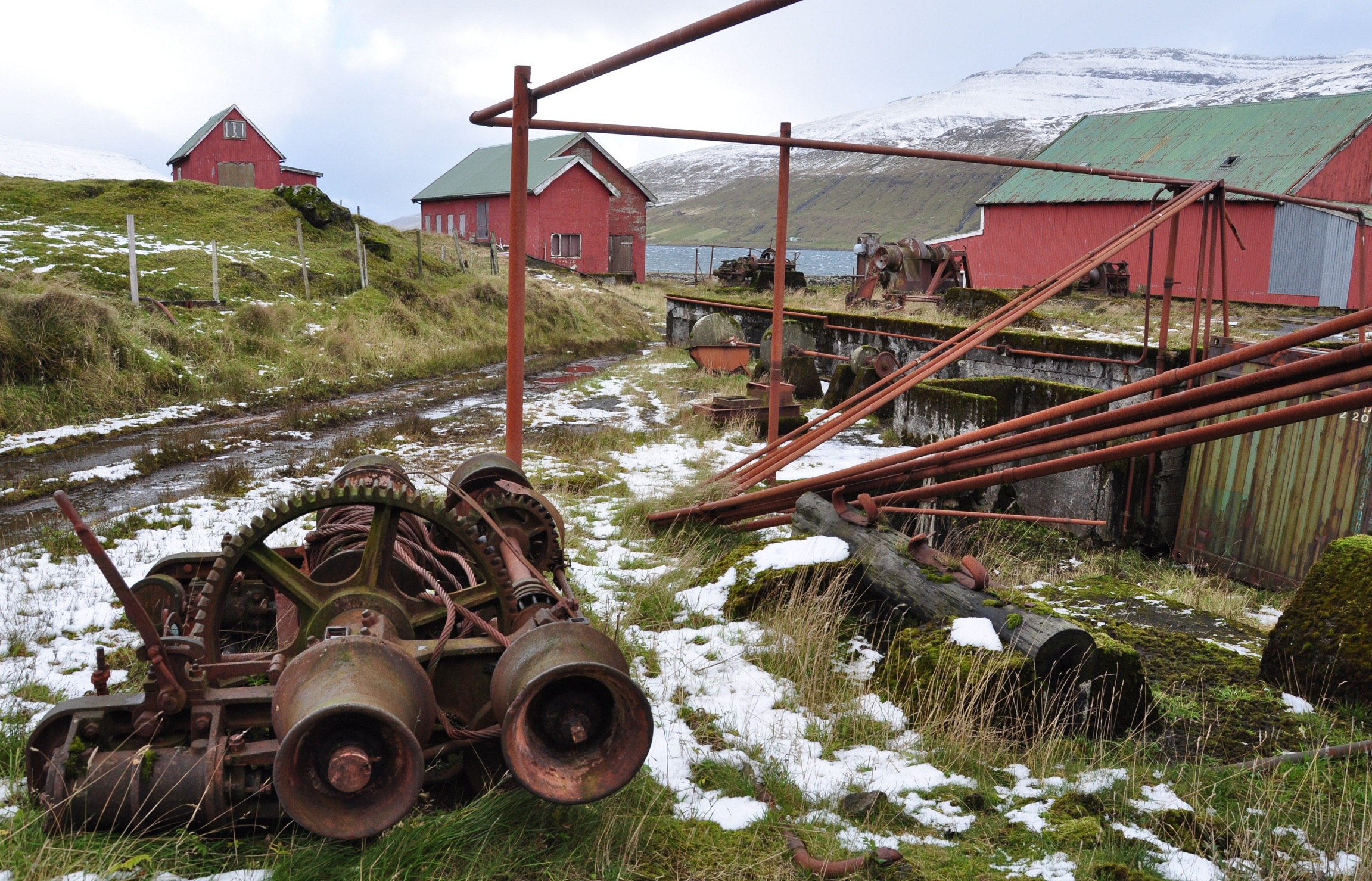 Scene at the abandoned whaling station at Við Áir, located between Hósvík and Hvalvík on Streymoy (Faroe Islands).